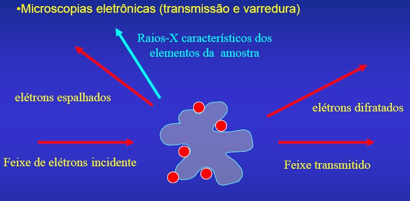 scheme of characterization via Electron Microscopy